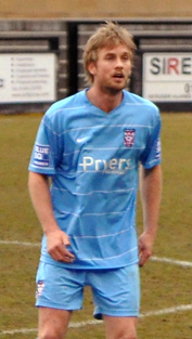 Neil Barrett